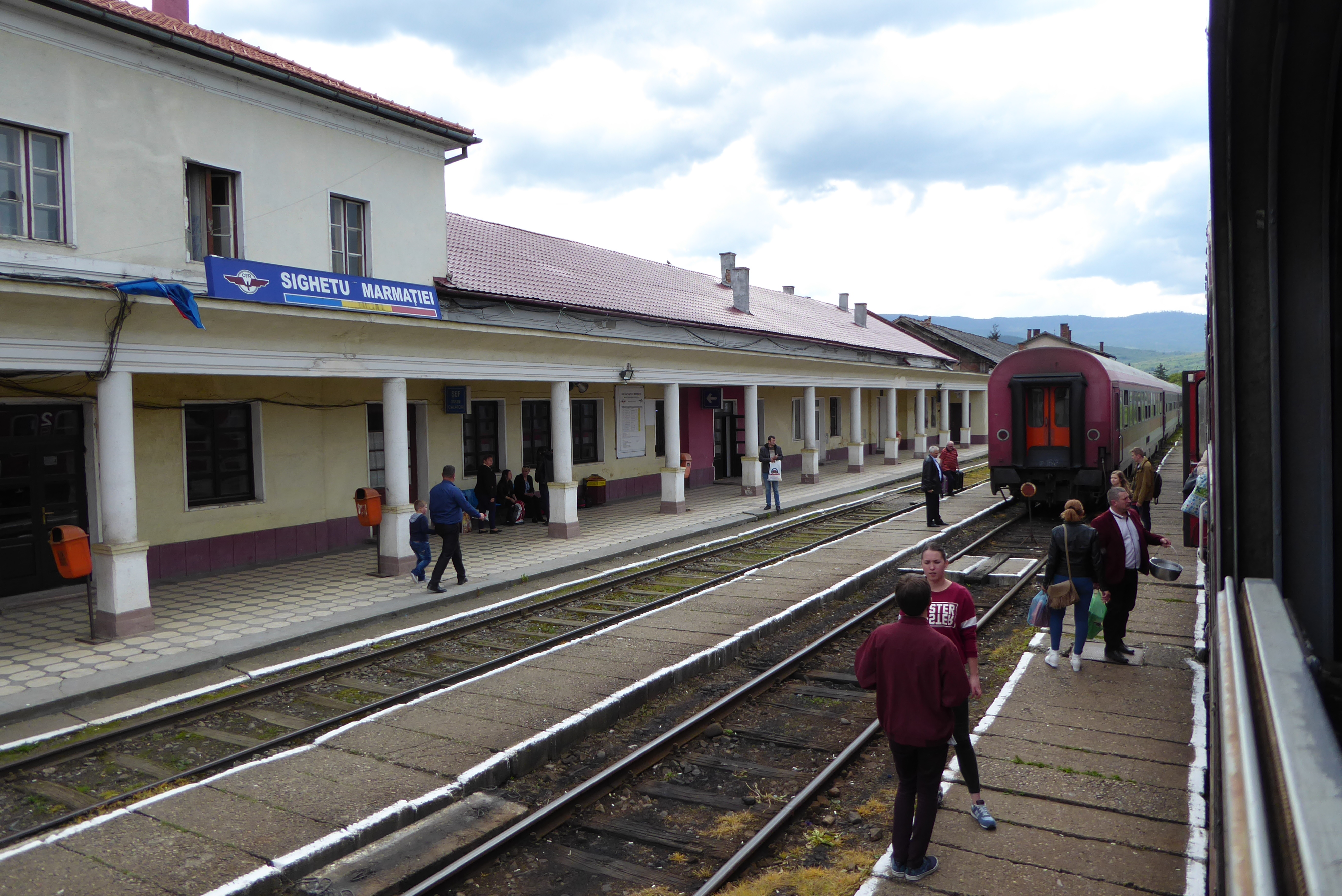 train station of Sighetu Marmației, Maramureș, Romania